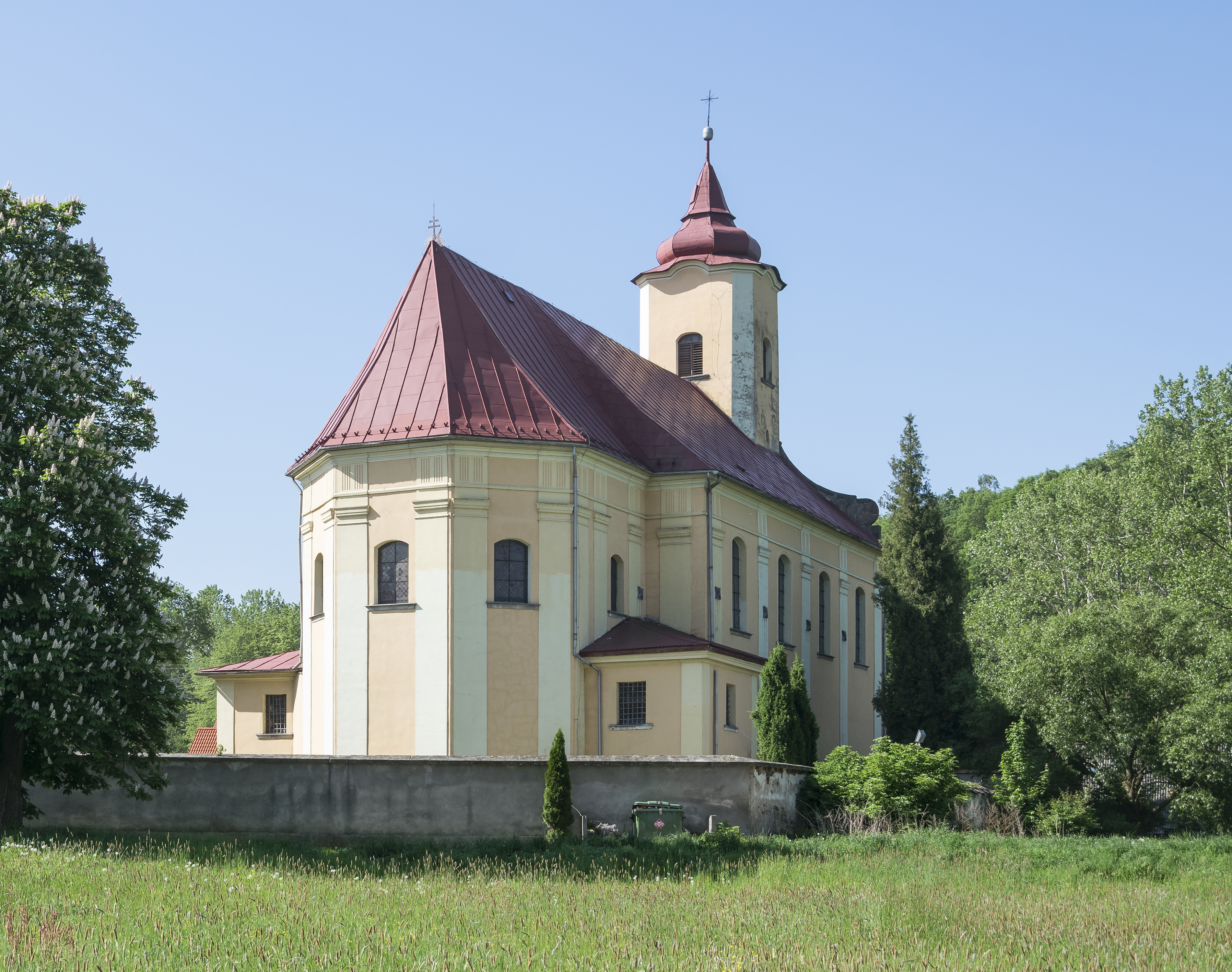 Saint Martin church in Roztoki